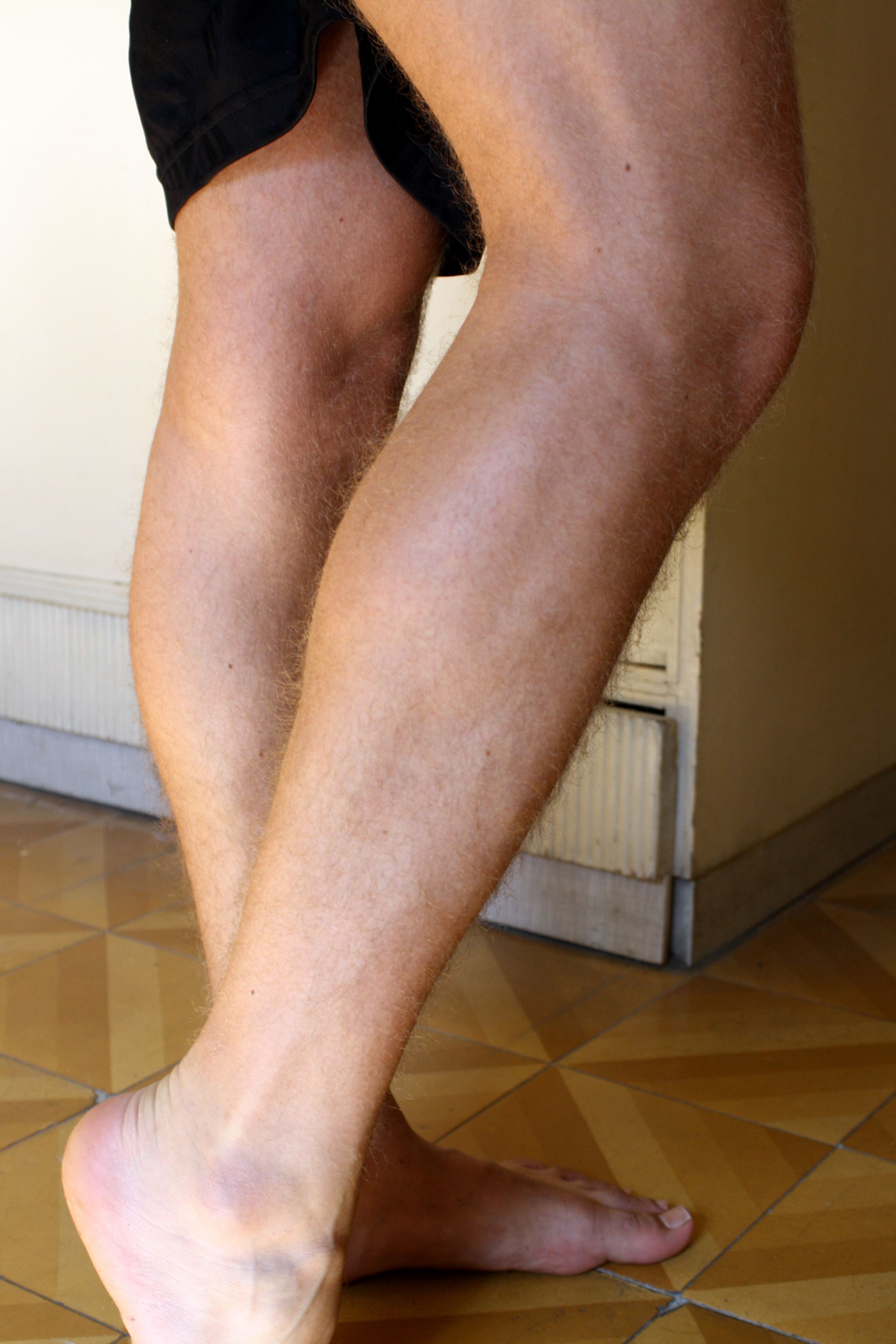 human legs